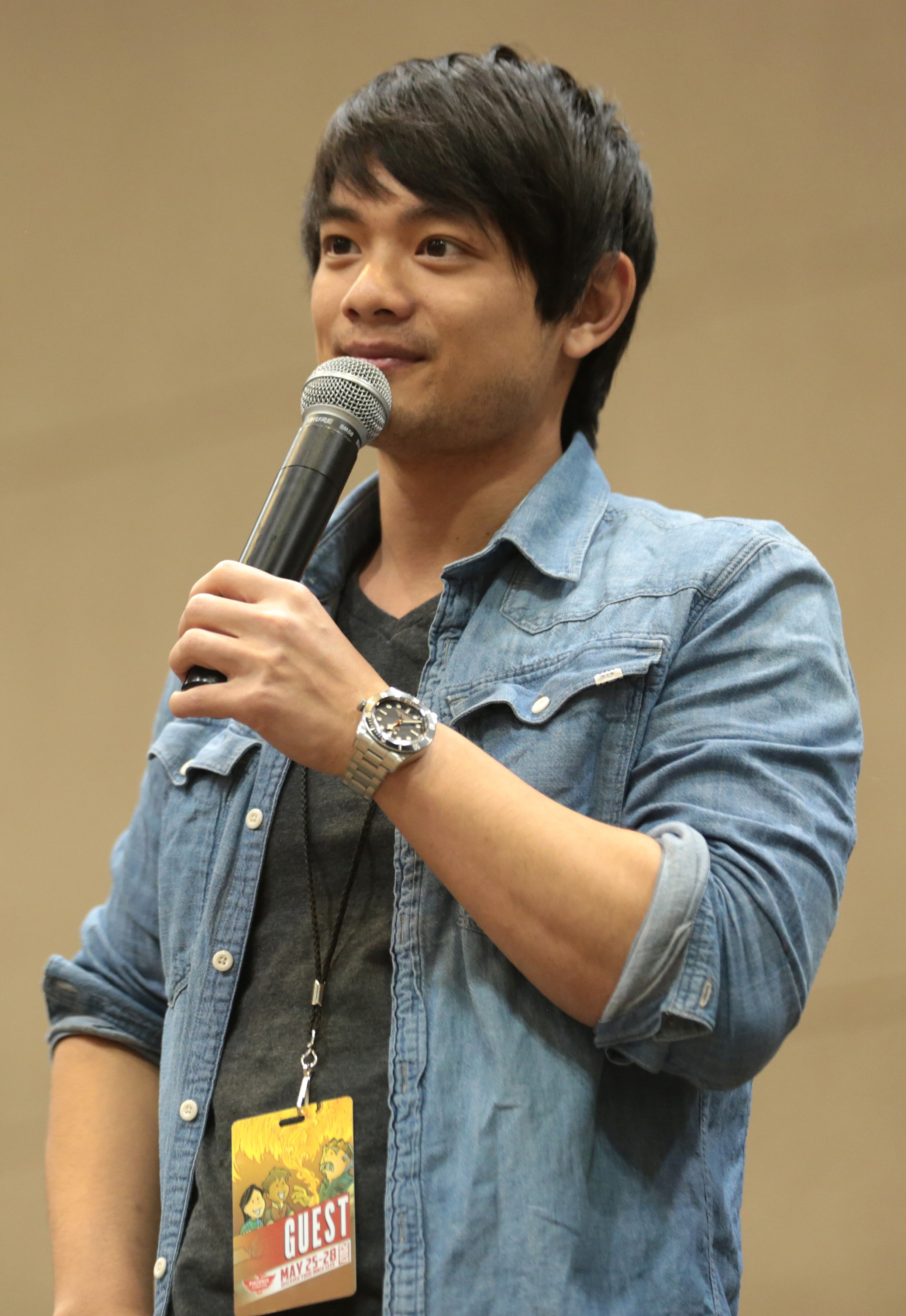 Osric Chau speaking at the 2017 Phoenix Comicon in Phoenix, Arizona.